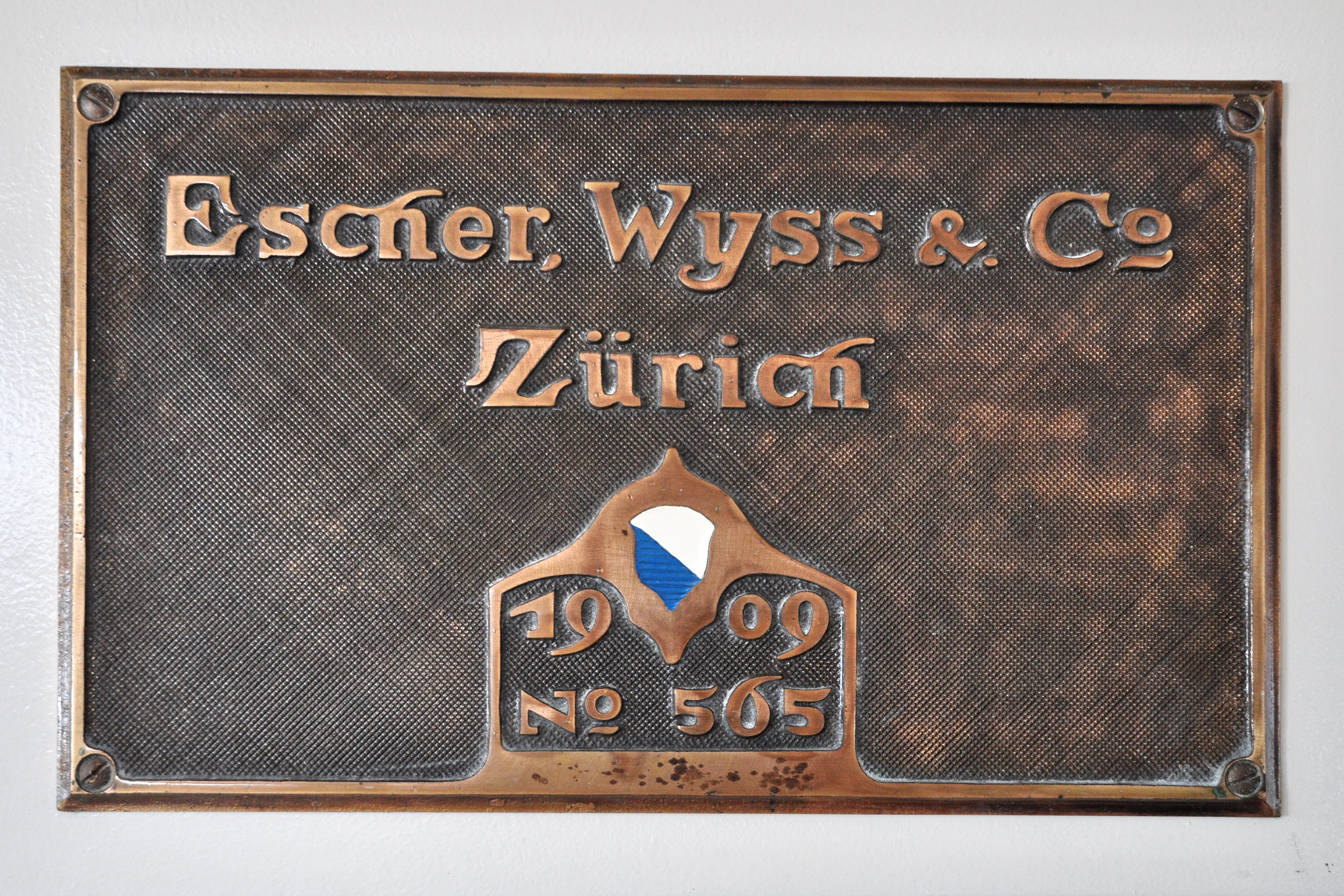 Interior view of the Zürichsee-Schiffahrtsgesellschaft (ZSG) paddle steamship Stadt Zürich on Zürichsee (Lake Zürich) in Switzerland.